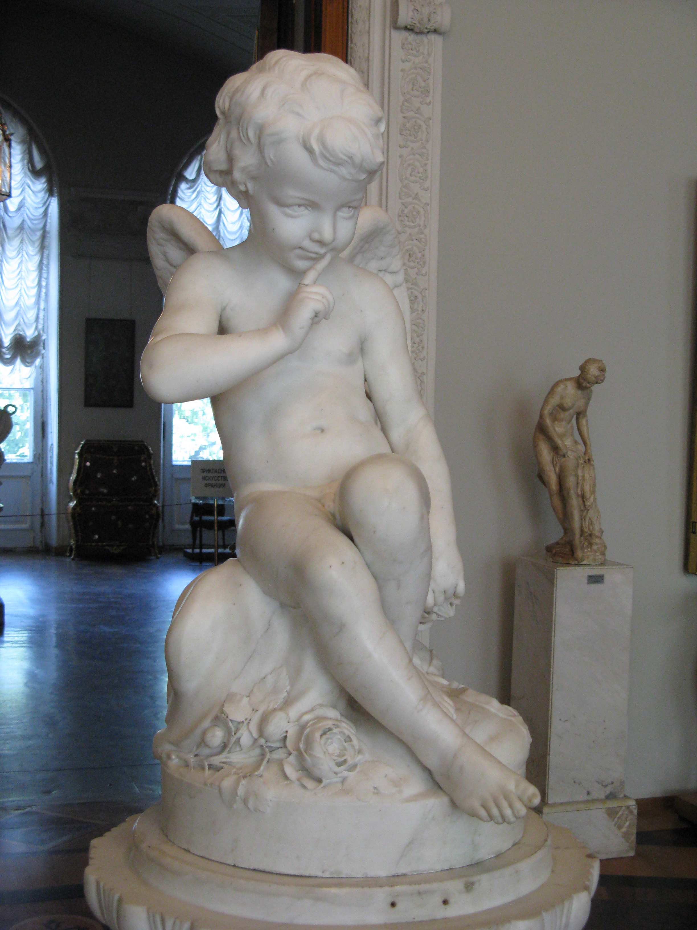 Cupid by Étienne Maurice Falconet at the Hermitage, Marble Height 85 cm